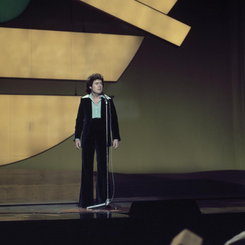 Red Hurley at a rehearsal for the Eurovision Song Contest 1976.